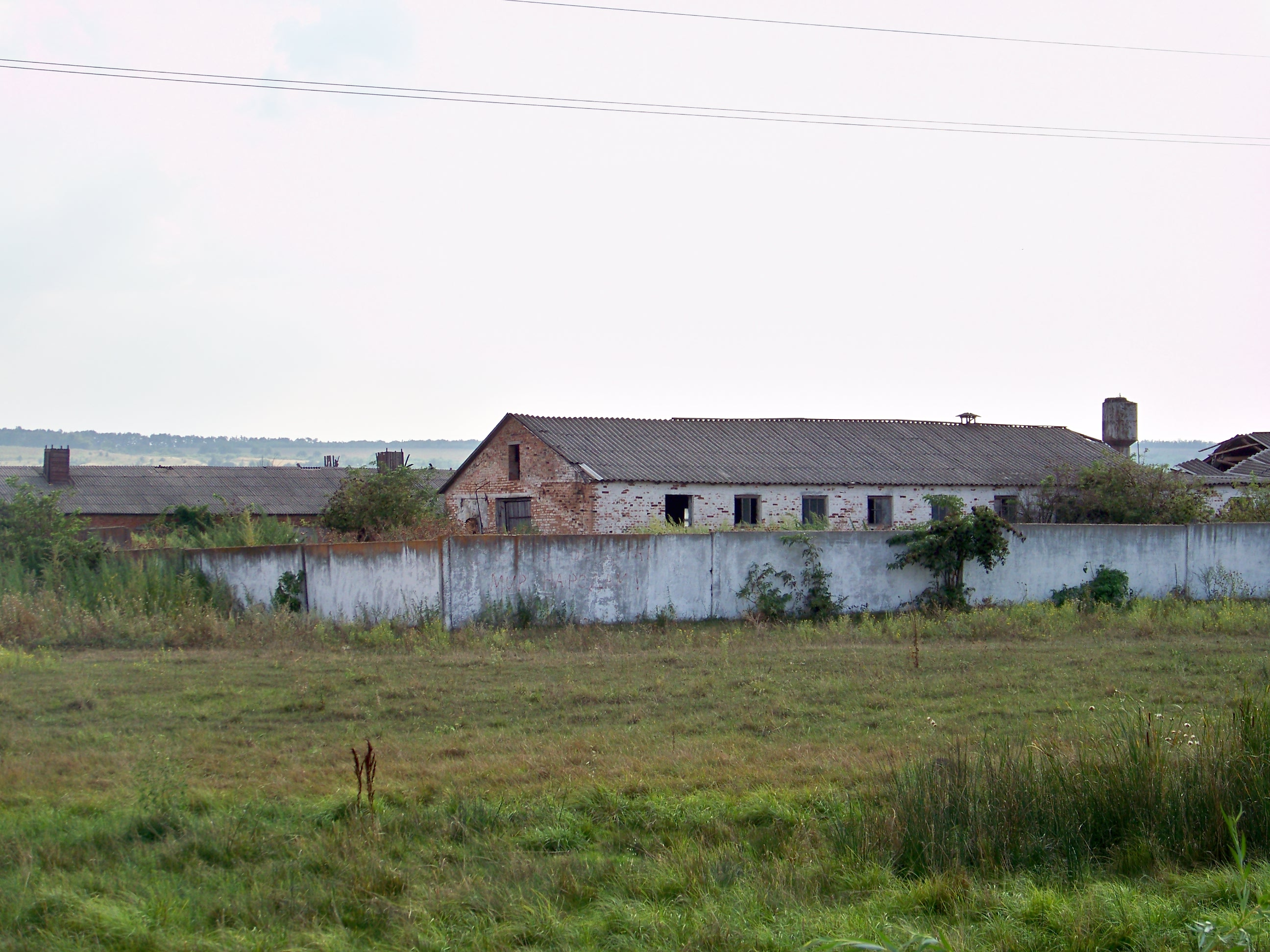 Abandoned communal farms, KKryve Ozero, Ukraine